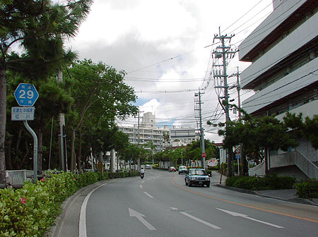 Okinawa prefectural road route 29